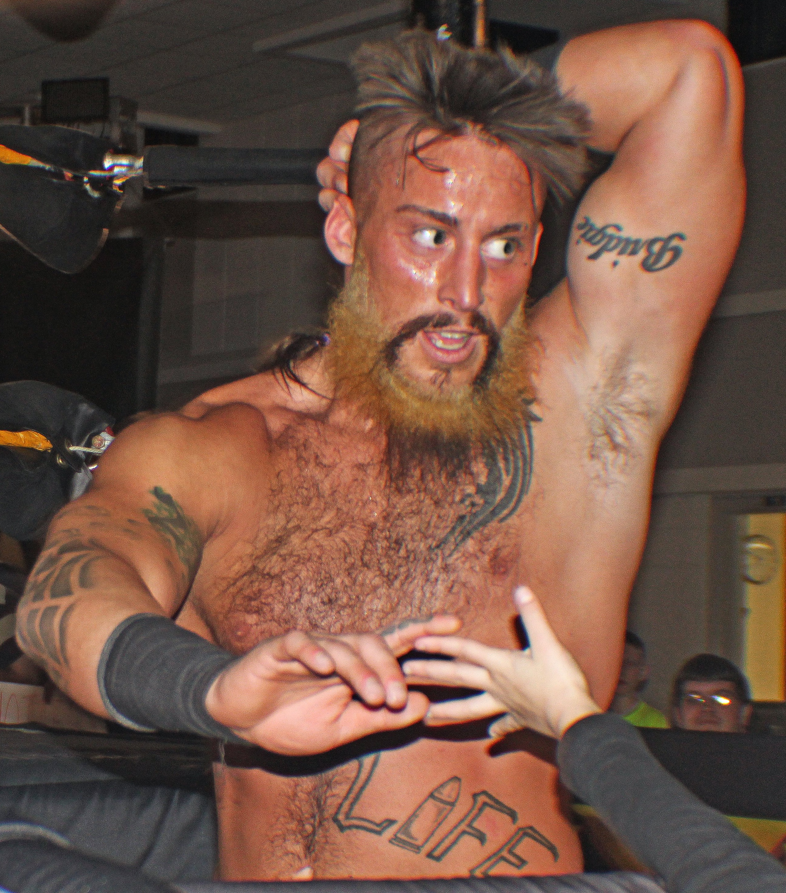 Enzo Amore at an NXT show. Cropped from original.